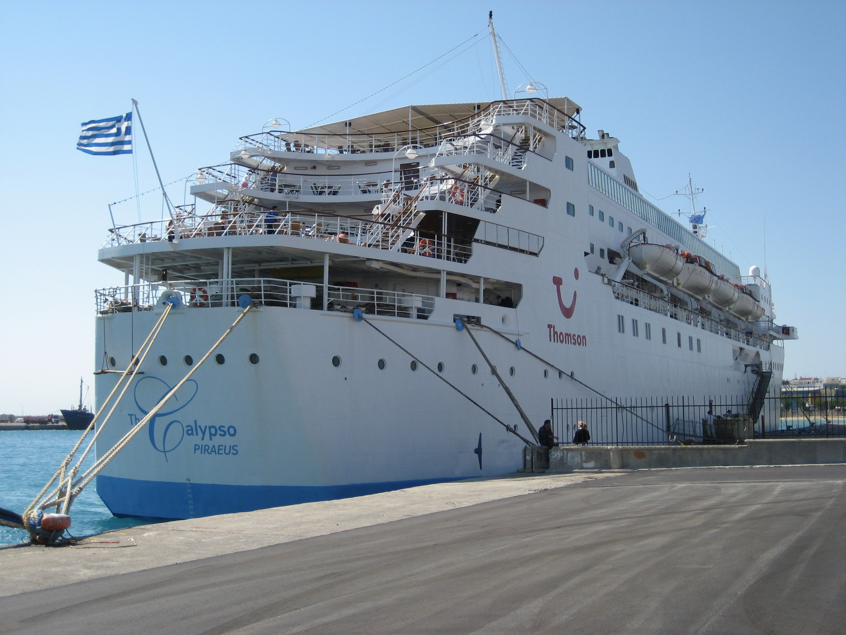 Cruise ship The Calypso at Rhodes, 2008